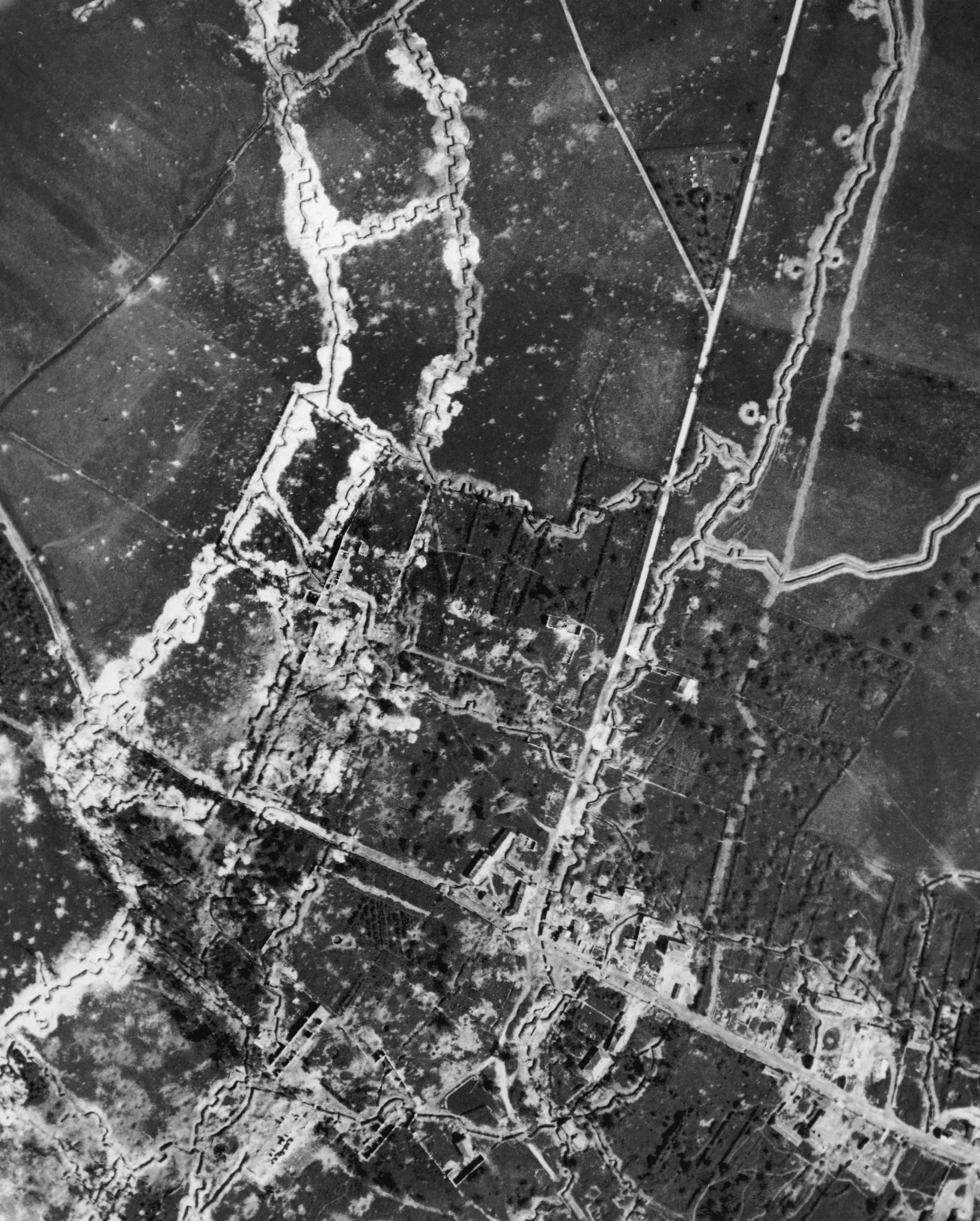 vertical aerial reconnaissance of Thiepval village, and German front-line and support trenches. North is approximately at top. See also same area on 25-09-1916 : File:Aerial photograph of Thiepval bombardment 25-09-1916 IWM Q 63740.jpg